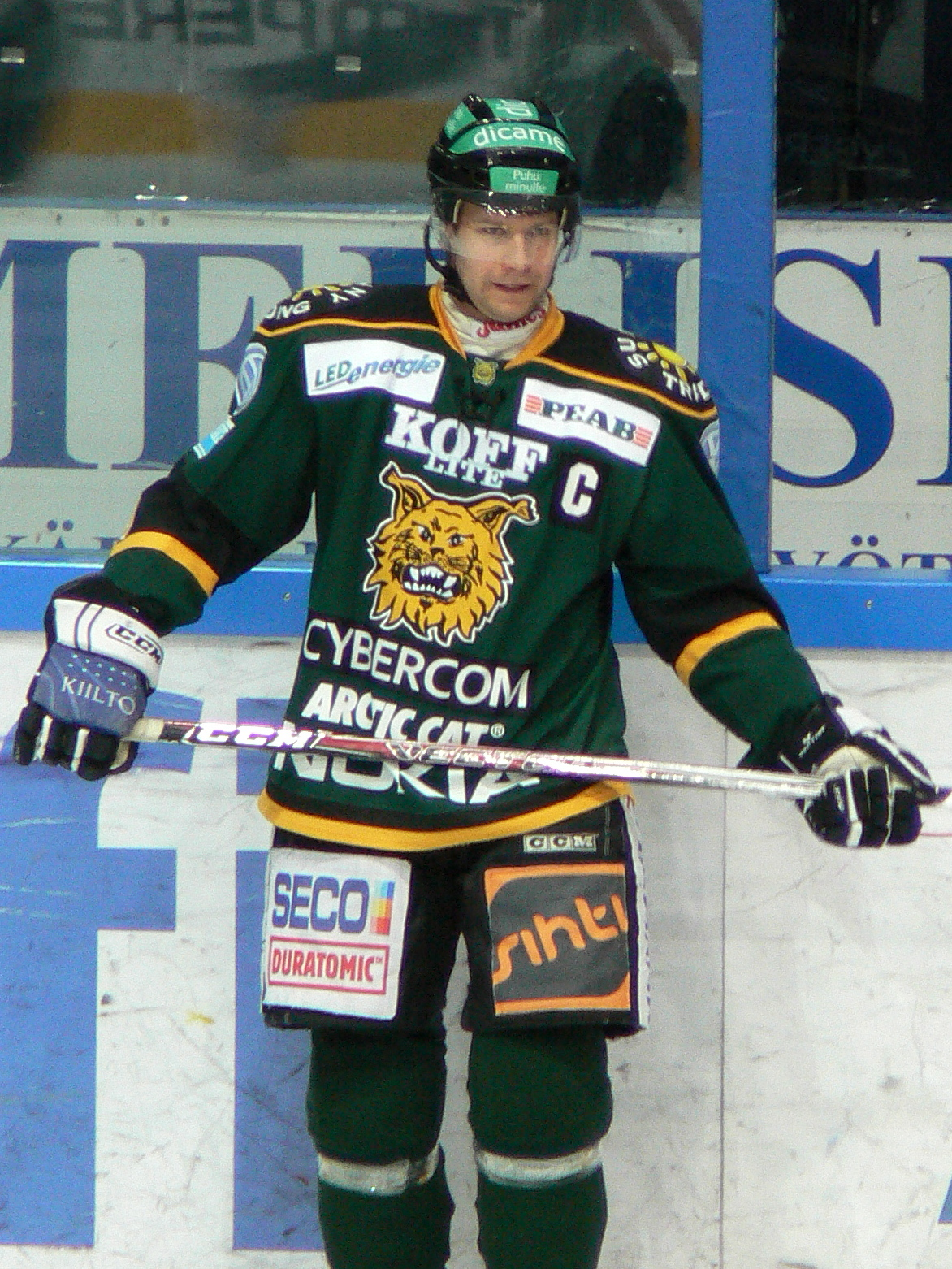 Finnish ice hockey defenseman Antti Hulkkonen playing for Tampere Ilves in October, 2009.